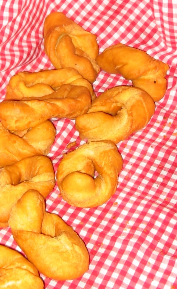 Jersey wonders; taken at La Faîs'sie d'Cidre, Hamptonne, Jersey 22 October 2006Jèrriais: des mèrvelles à La Faîs'sie d'Cidre, Hamptonne, Jèrri 22 d'Octobre 2006